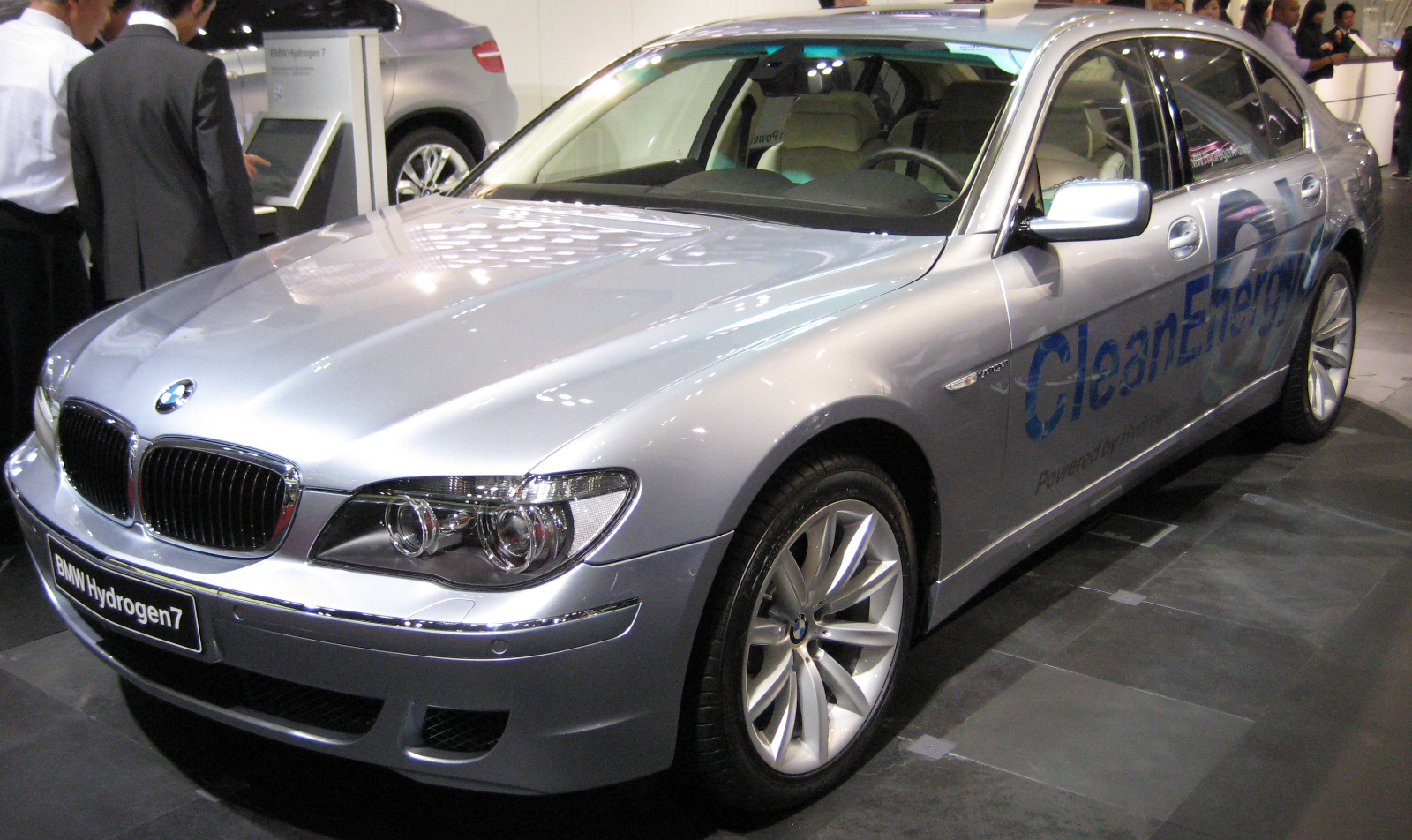 BMW Hydrogen7 in Tokyo Motor Show 2007